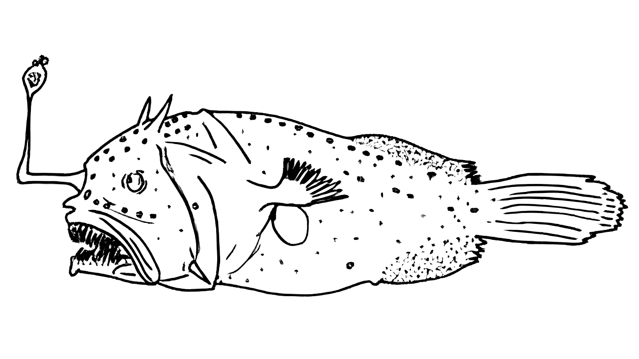 Drawing of the Puck's dreamer anglerfish, Puck pinnata